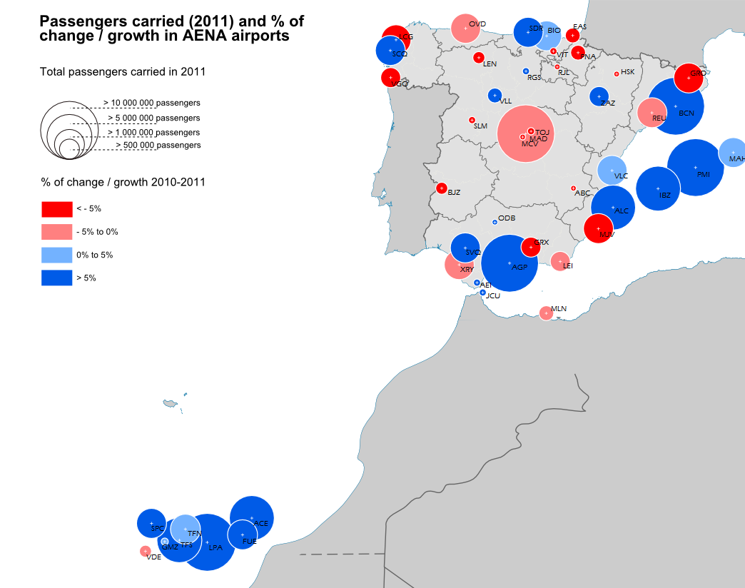 AENA airports of Spain